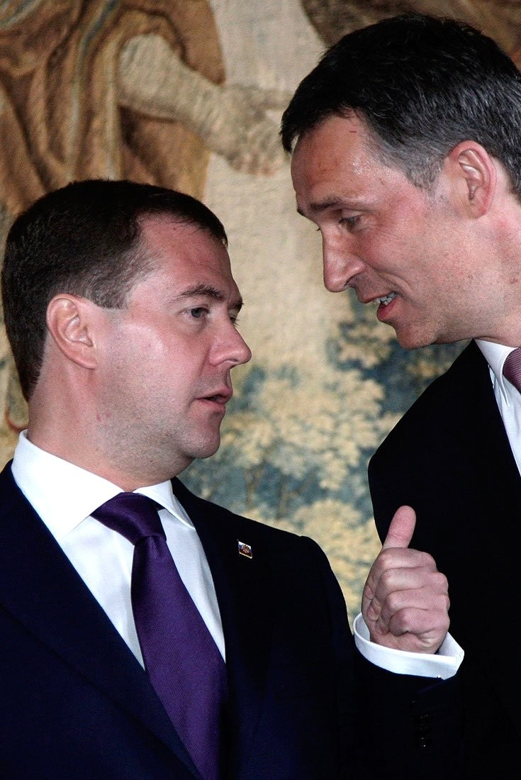 President Medvedev in Norway.